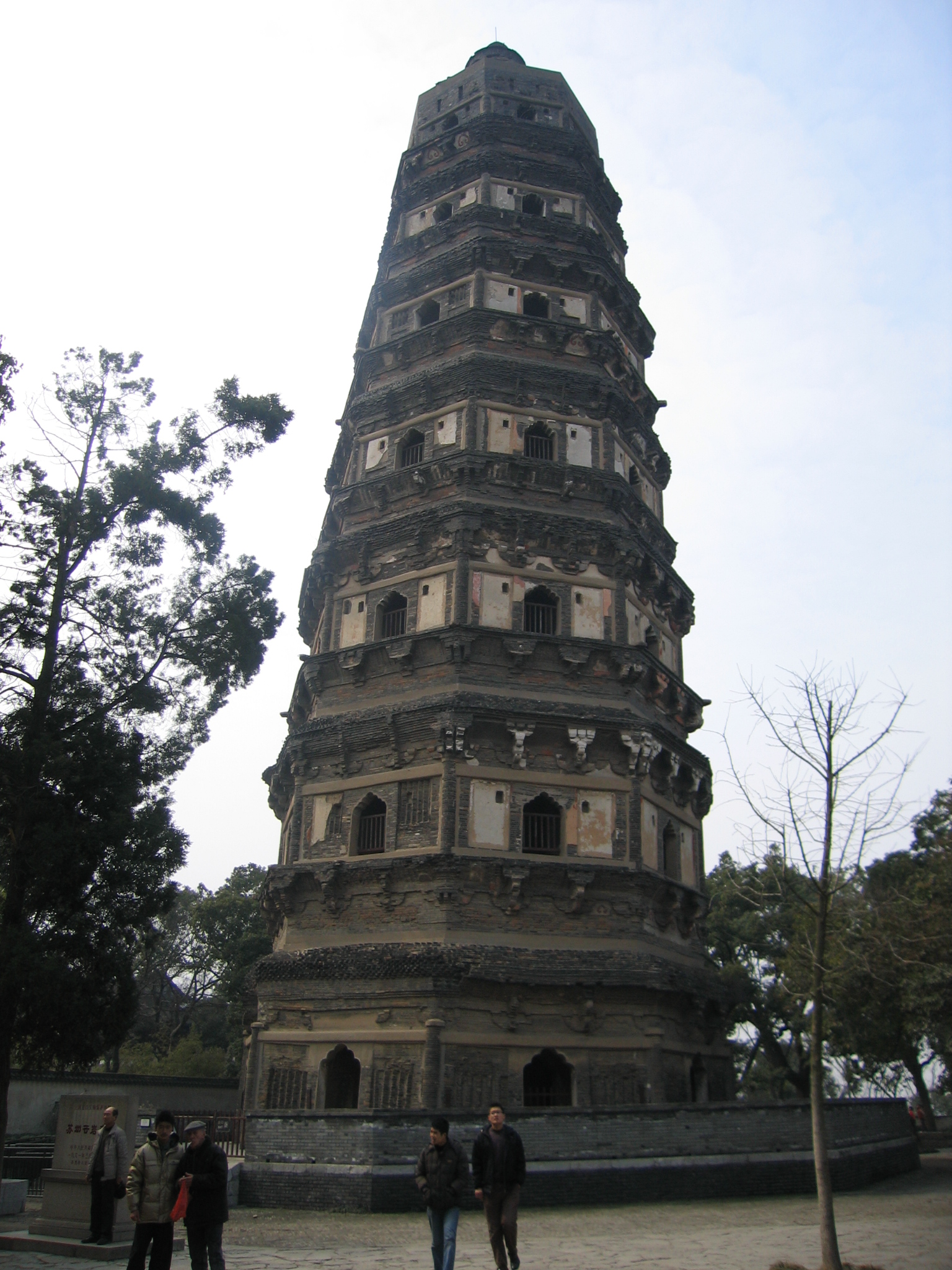 Yunyansi Pagoda at Tiger Hill in Suzhou, China.